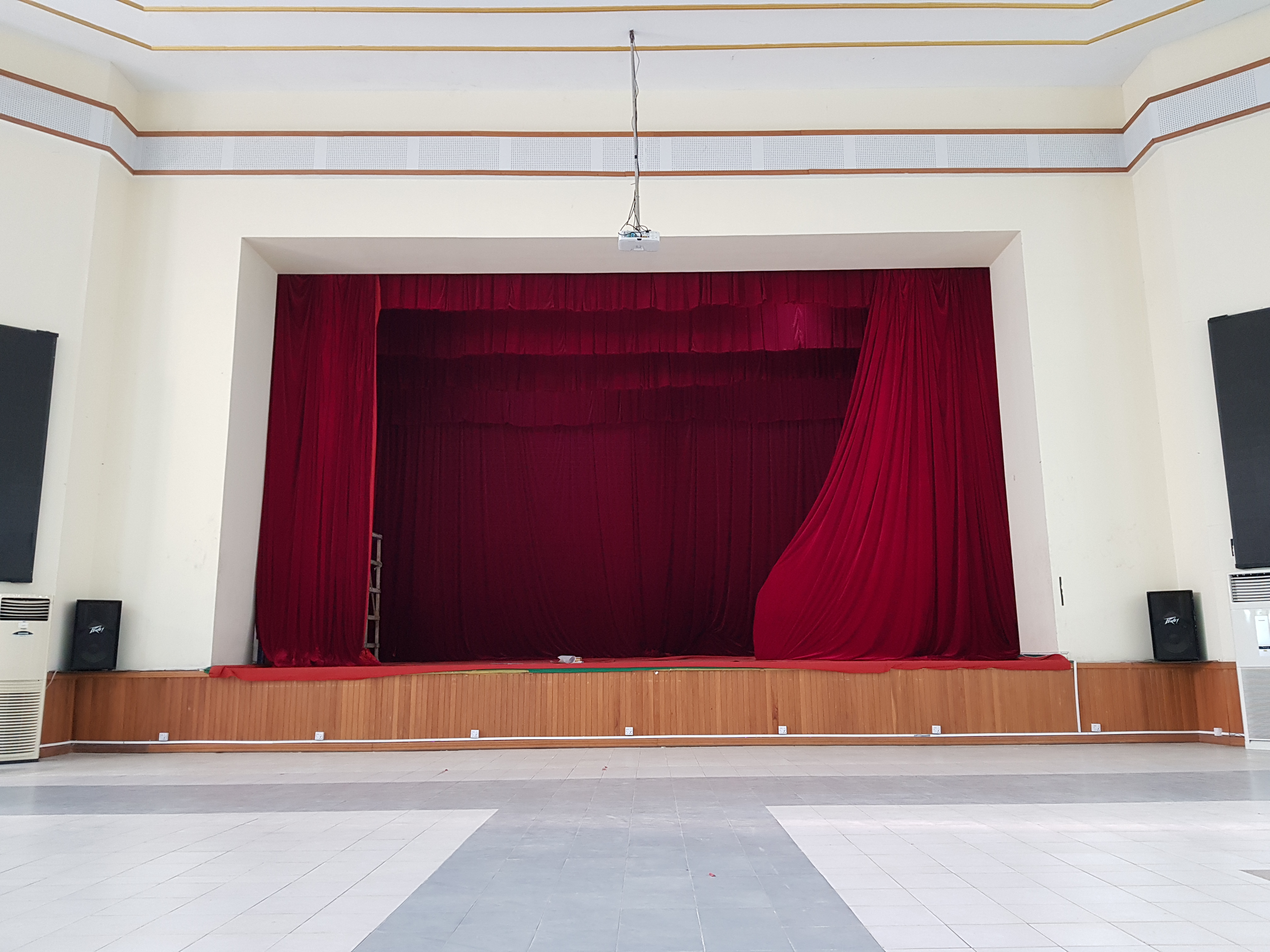 Mandalay City Hall